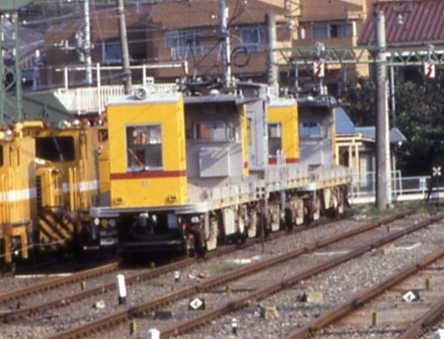 Keikyu Deto 30 x 2 + To 70 at Kanazawa Bunko